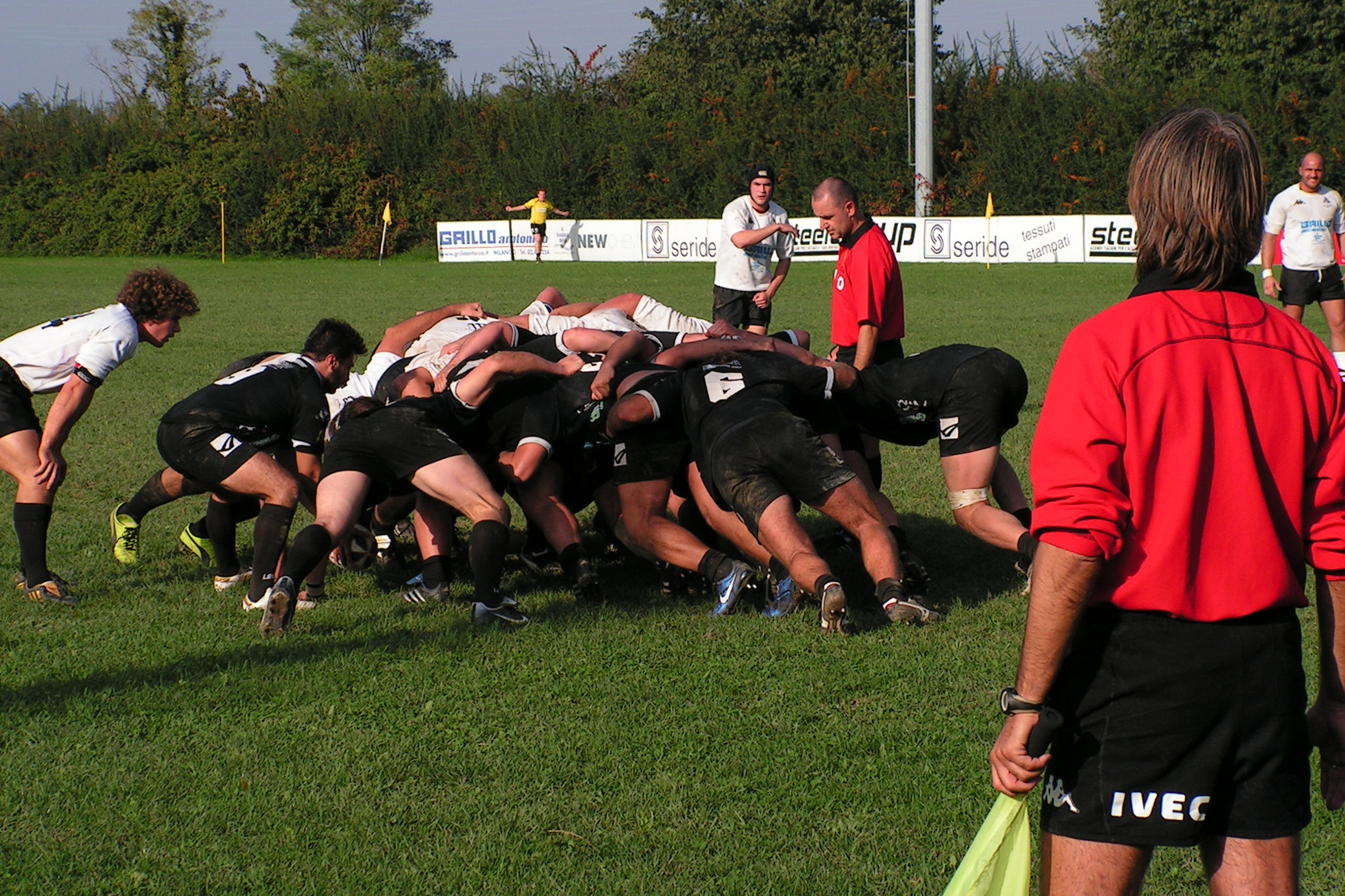 Scrum contested by Amatori Milano and Udine RFC, Italian serie A1 championship 2010-11